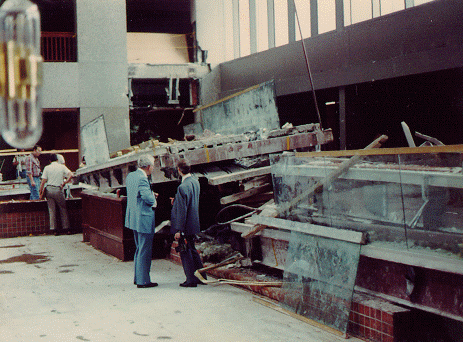 View of the collapsed walkways, during the first day of the investigation of the Hyatt Regency walkway collapse.